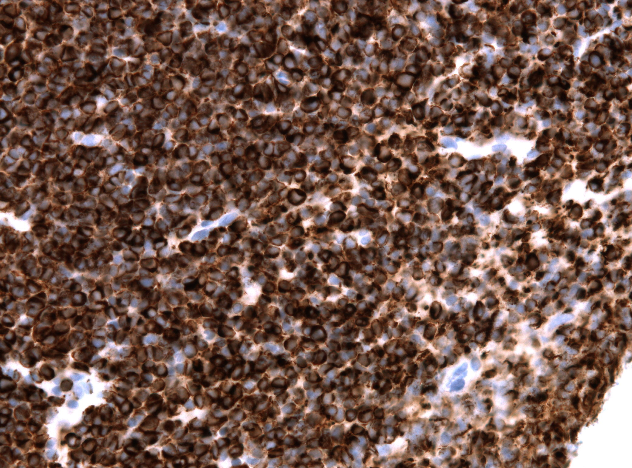 Neurofilament immunohistochemical stain of a pineoblastoma